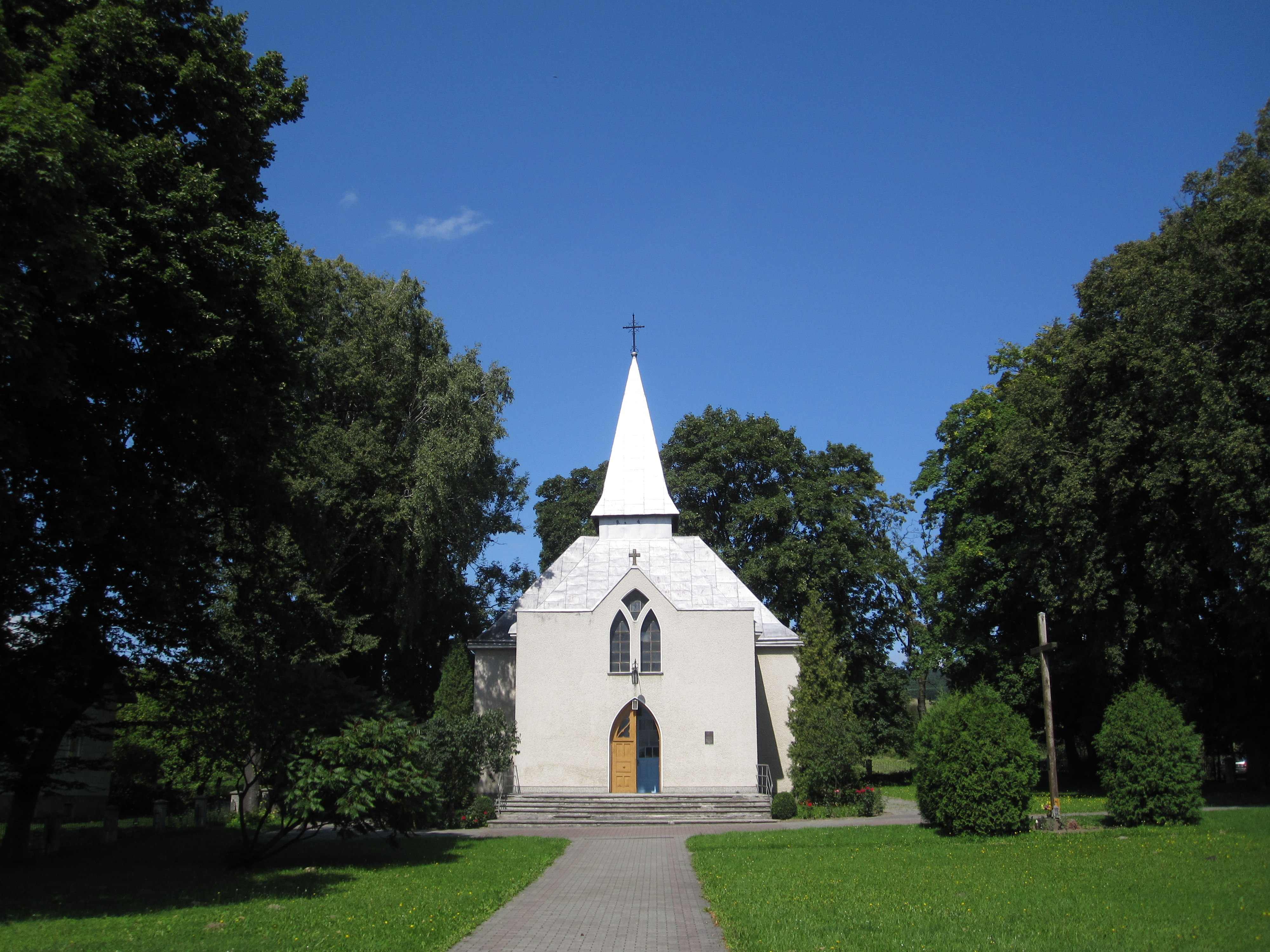 Church, Nowosielce, Subcarpathian Voivodeship